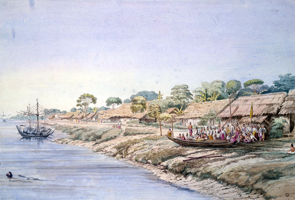 Watercolour with pen and ink of a view of Henzadah (now Hinthada) seen from the steamer from 'A Series of Views in Burmah taken during Major Phayre’s Mission to the Court of Ava in 1855' by Colesworthy Grant. This album consists of 106 landscapes and portraits of Burmese and Europeans documenting the British embassy to the Burmese King, Mindon Min (r.1853-1878). The mission took place after the Second Anglo-Burmese War in 1852 and the annexation by the British of the Burmese province of Pegu (Bago). It was despatched by the Governor-General of India Lord Dalhousie on the instructions of the East India Company, to attempt to persuade King Mindon to sign a treaty formally acknowledging the extension of British rule over the province. The mission started out from Rangoon and travelled up the Irrawaddy (Ayeyarwady) to the royal capital at Amarapura. Grant (1813-1880) was sent as the official artist of the mission. In recognition of his skill, he was presented with a gold cup and ruby ring by the Burmese King. Grant wrote that: 'The town of Henzidah, which is two days steam journey from Rangoon, has little to distinguish it from any other Burman town, except that the buildings have the advantage of higher ground, and assume a more comfortable, dry, and wholesome appearance. A very distant view of the Arracan Hills was obtained after leaving this place.'